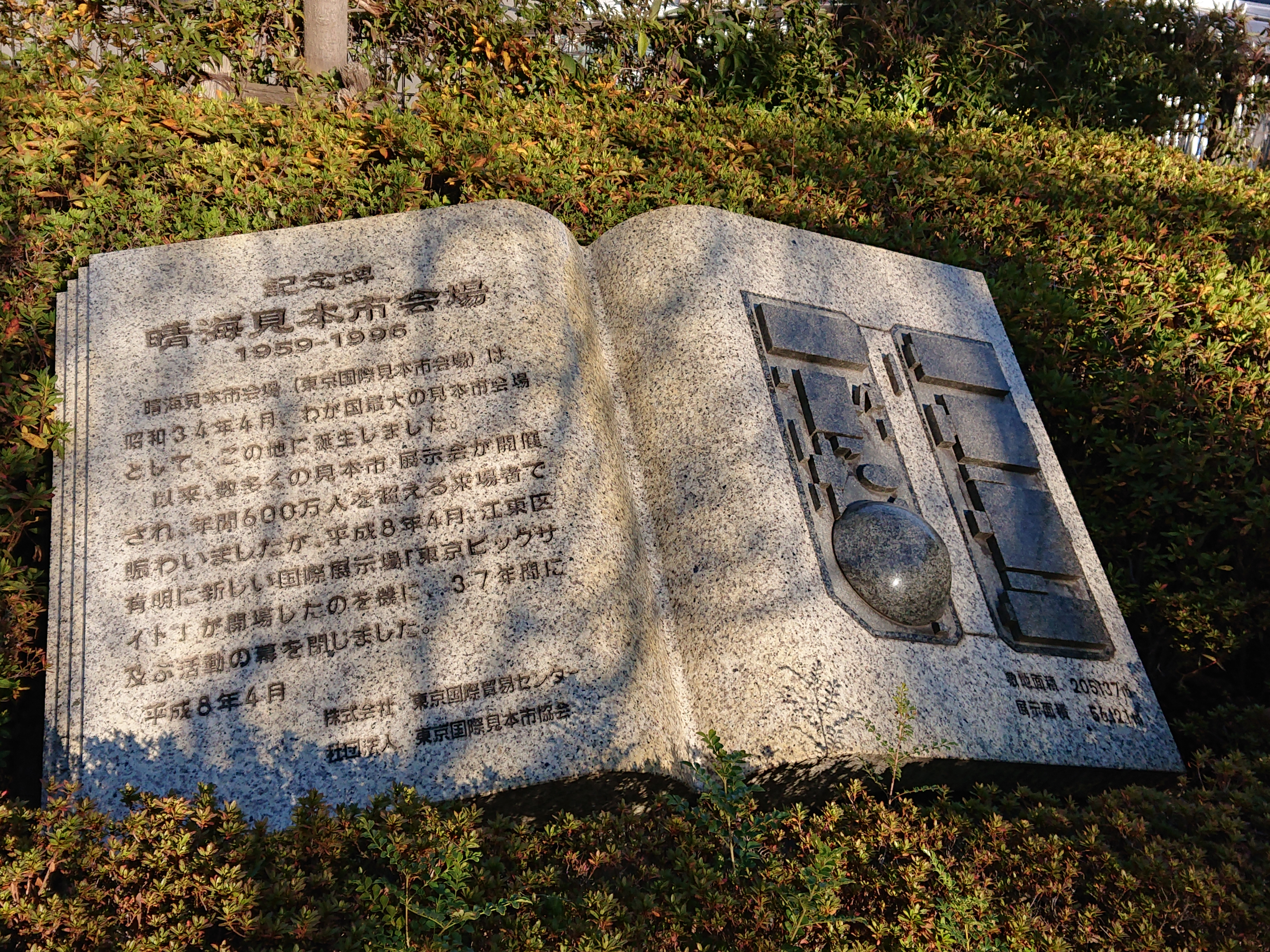 Monument of Tokyo International Trade Fairgrounds (東京国際見本市会場), located at 5-2-1 Harumi, Chuo, Tokyo, Japan